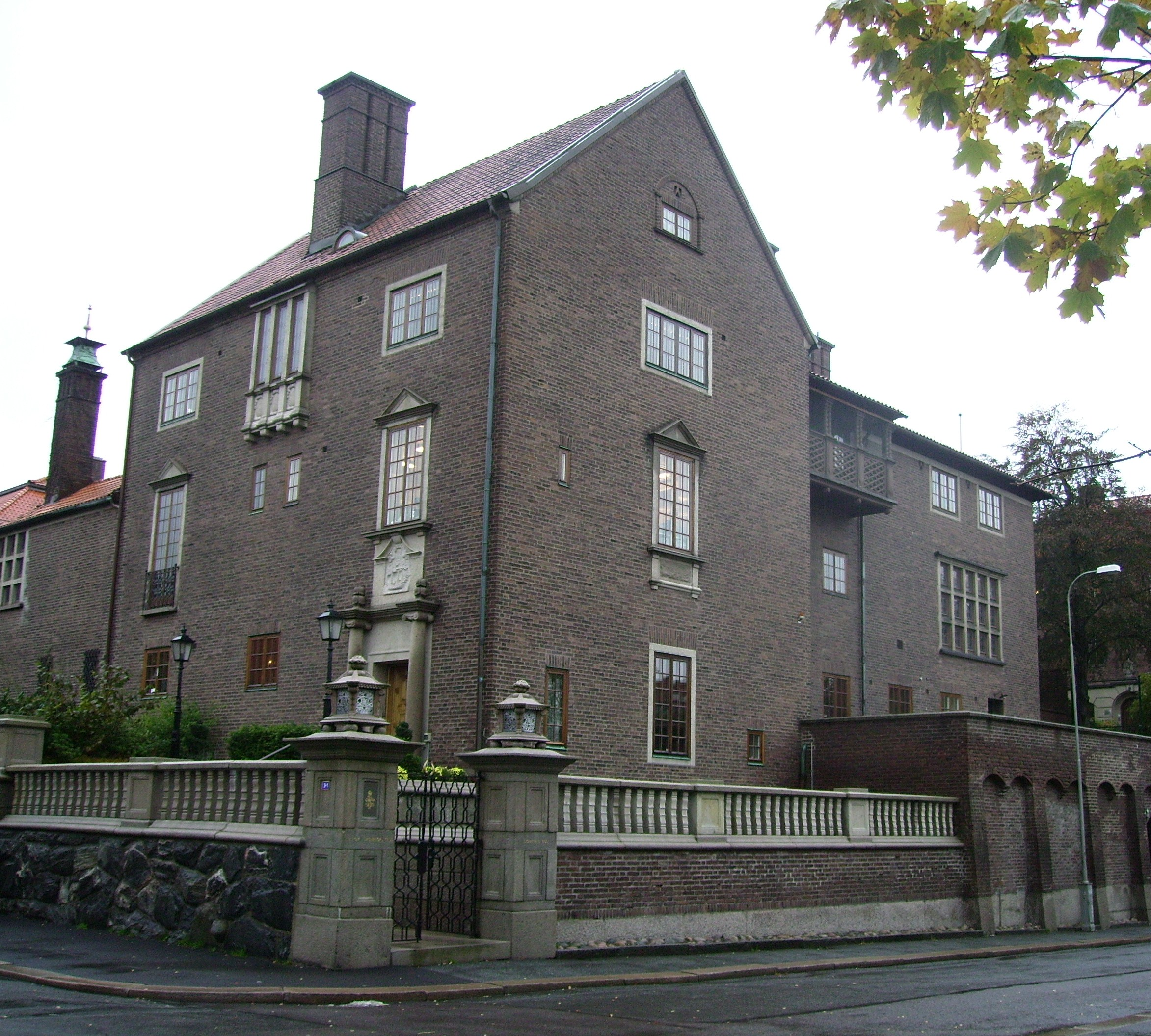 Picture of Royal Bachelor's Club in Göteborg